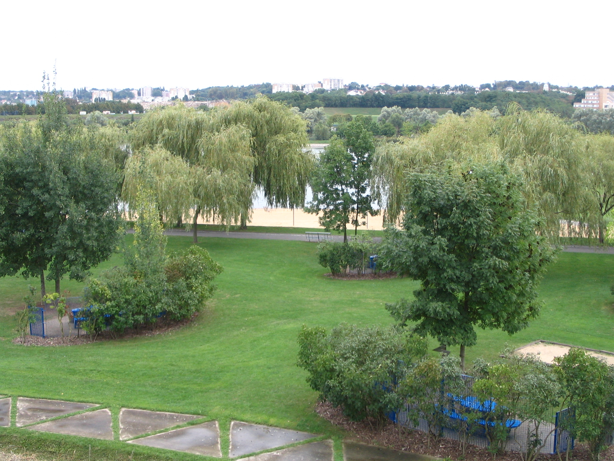 Parc départemental de la Plage Bleue, in Valenton, Val-de-Marne, France.